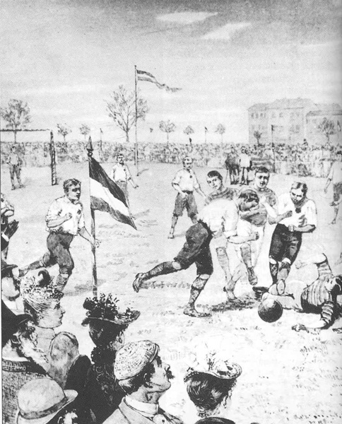 A football match between Dresden and Berlin played at Jahre, Germany.